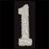 Route number signage that appeared on the front of BMT D-type (Triplex) cars from 1927 to 1964 on the New York Subway. From c1965 photostat. This number was used on trains of the Brighton Beach Line (1).